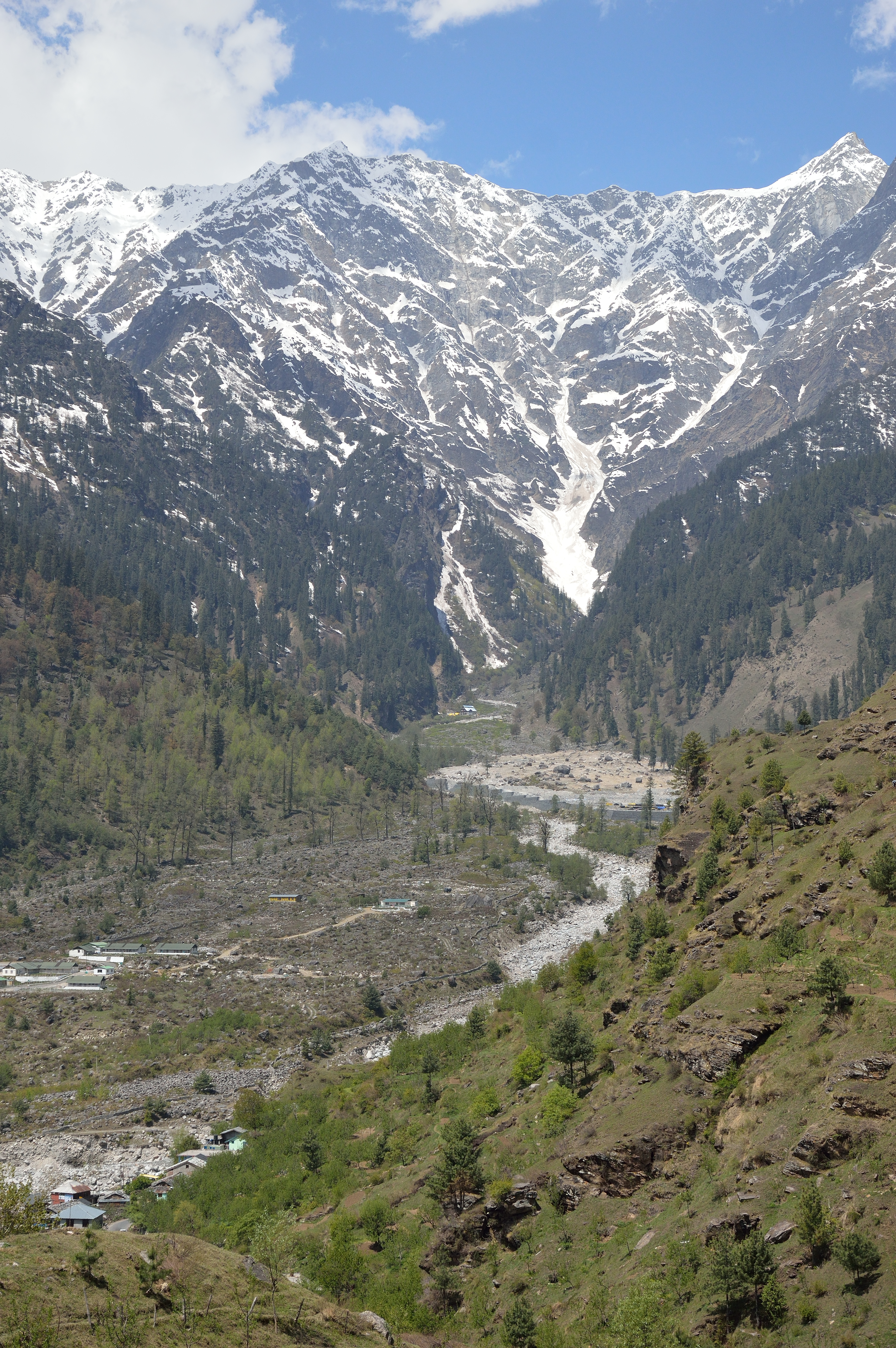 Photographed in Kullu district, Himachal Pradesh.